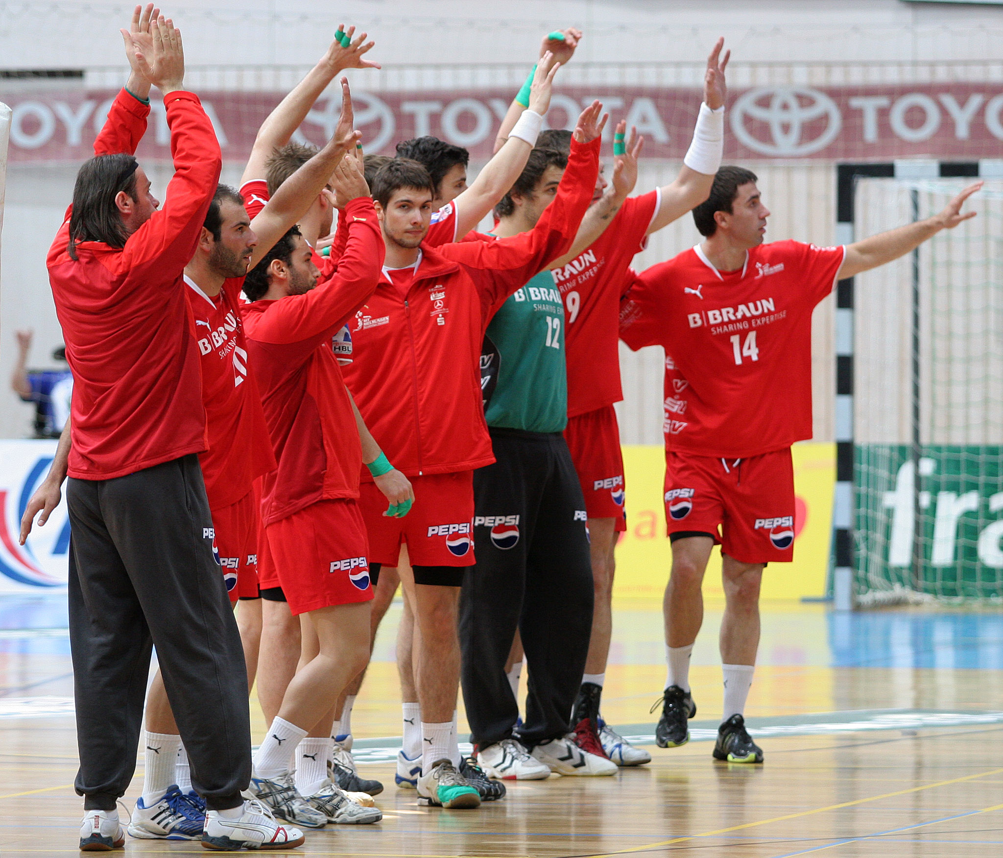 The German handball team MT Melsungen, on May 23rd 2009 in Aschaffenburg (Germany) prior the game TV Großwallstadt vers. MT Melsungen.